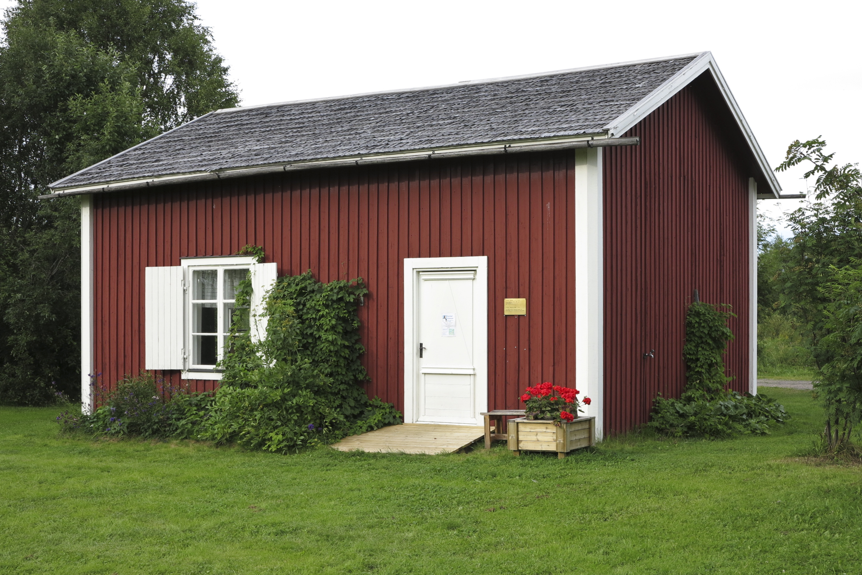 Nobel prize winner in literature 1974, Eyvind Johnson, was born here in this bakery house in Svartbjörnsbyn, Boden, Sweden. 29th July 1900.